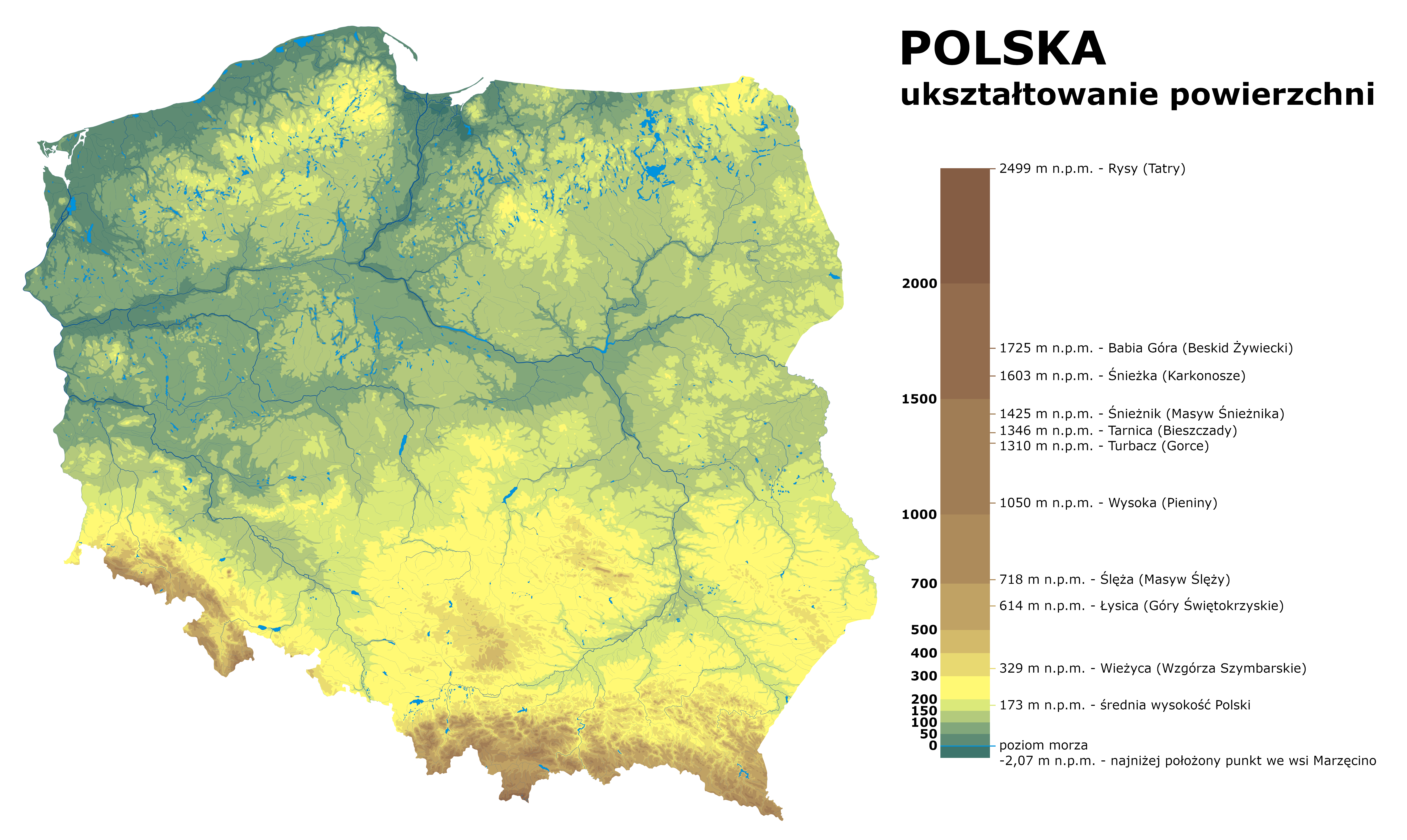 Physical map of Poland, based on maps Wikipedysta:Aotearoa